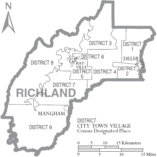 Map of Richland Parish, Louisiana, United States with municipal and district boundaries